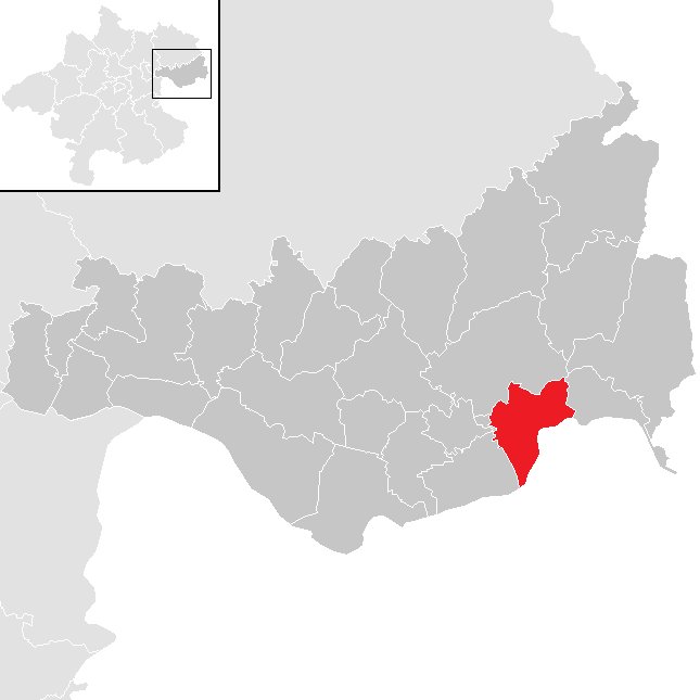 district Perg